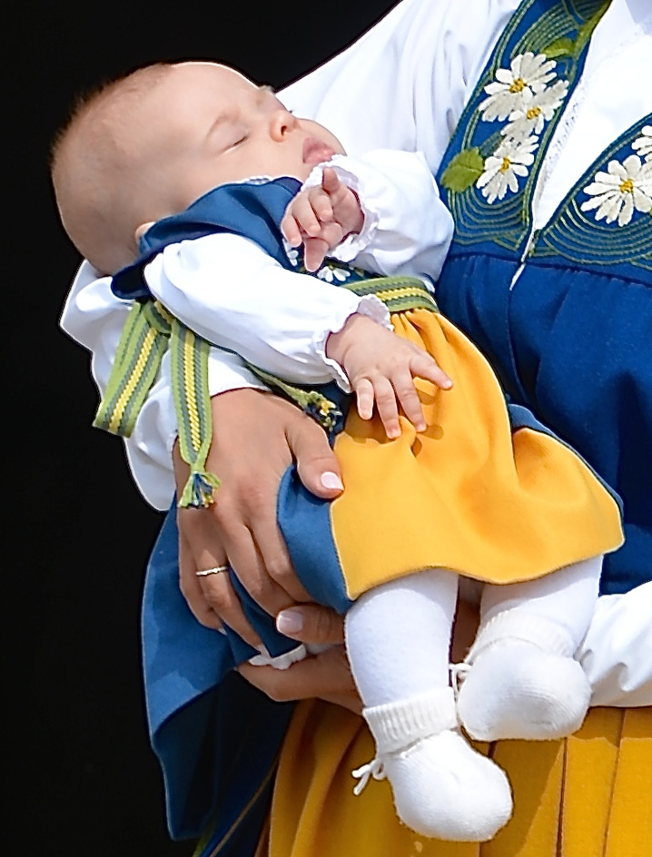 Princess Leonore on Sweden´s National Day 2014.